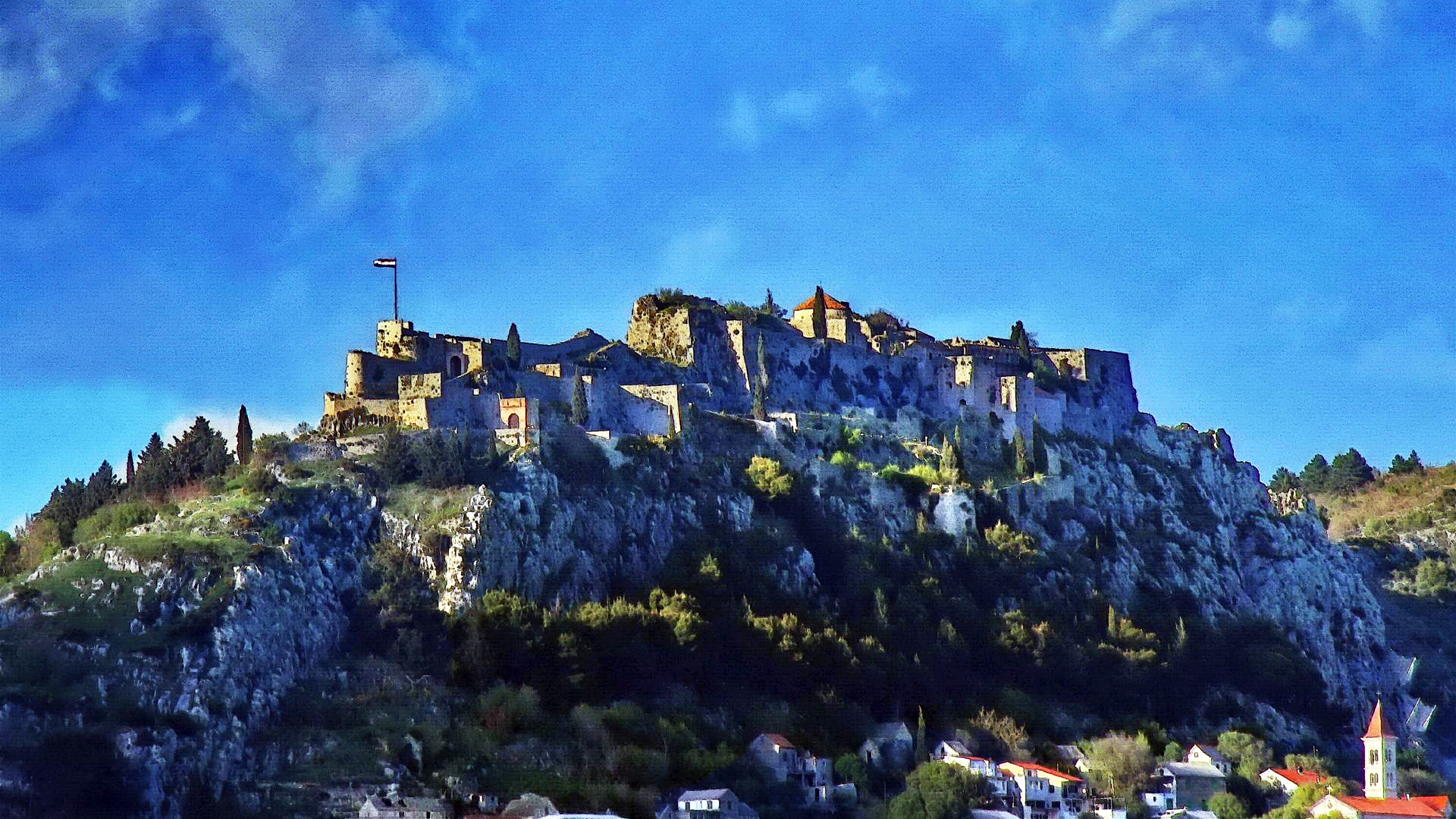 Klis Fortress — a view from south-west, late in the afternoon